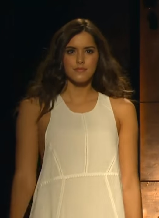 Colombian model and TV host Paulina Vega, Miss Universe 2014, models clothes from Falabella in the Plaza Mayor, Medellín convention center.